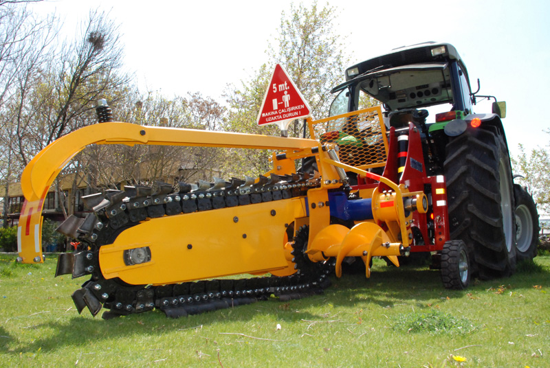 Tractor mount trencher while going to construction area to dig trenches for fiber optic cable mounting process.